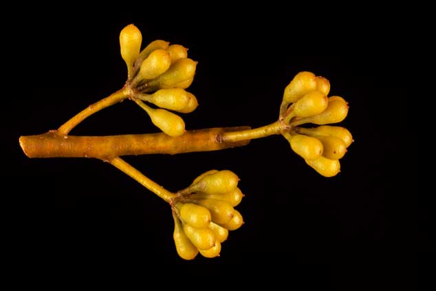 Flower buds of Eucalyptus bupestrium